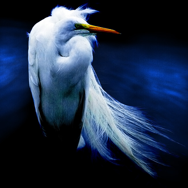 Great Egret (Ardea alba), Rockport Beach Park, Rockport, Texas. Edited to resemble the Faith No More album Angel Dust.